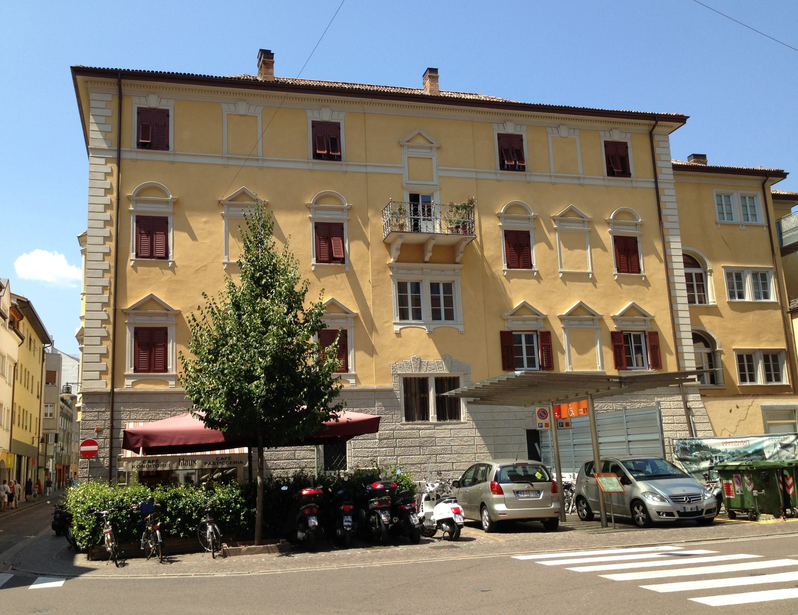 Ansitz Schrofenstein - Bozen Bolzano